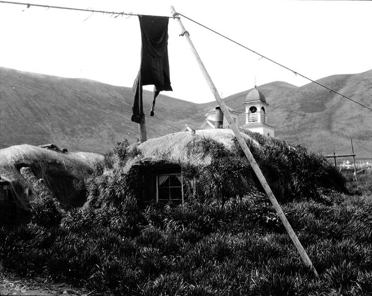 From John Cobb field notebook: Indian barabbas, or sod huts, Karluk, Alaska, June 1906 Subjects (LCTGM): Eskimos--Structures; Houses--Alaska--Karluk; Clotheslines--Alaska--Karluk; Laundry--Alaska--Karluk Subjects (LCSH): Dwellings--Alaska--Karluk; Sod houses--Alaska--Karluk